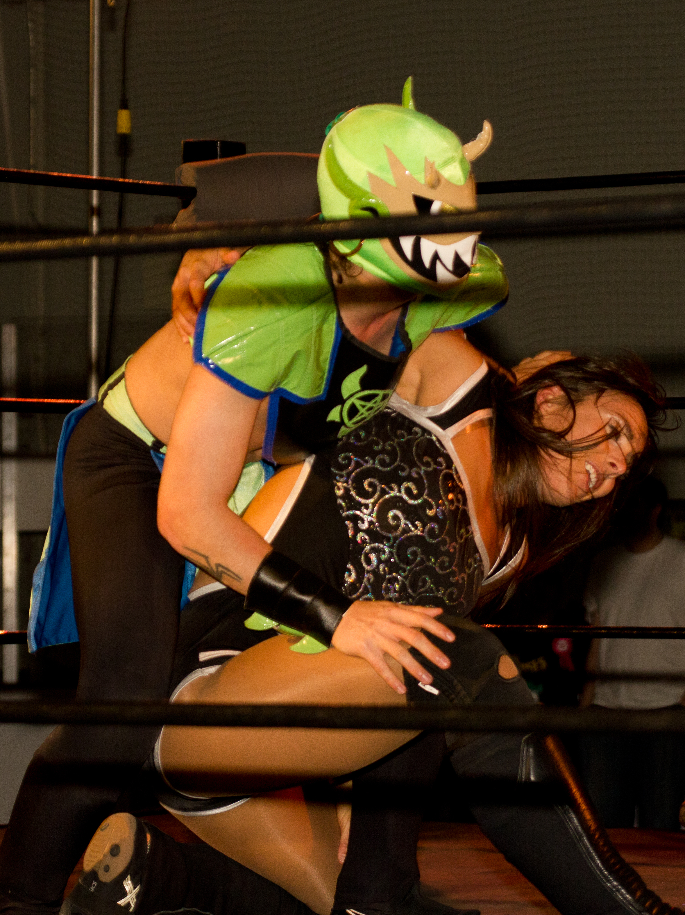 Professional wrestlers Kobald and Sara Del Rey at a Chikara event.